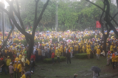 By Mohd Hafiz Noor Shams, User:__earth. Therefore I am the author. __earth (Talk) 16:25, 10 November 2007 (UTC)